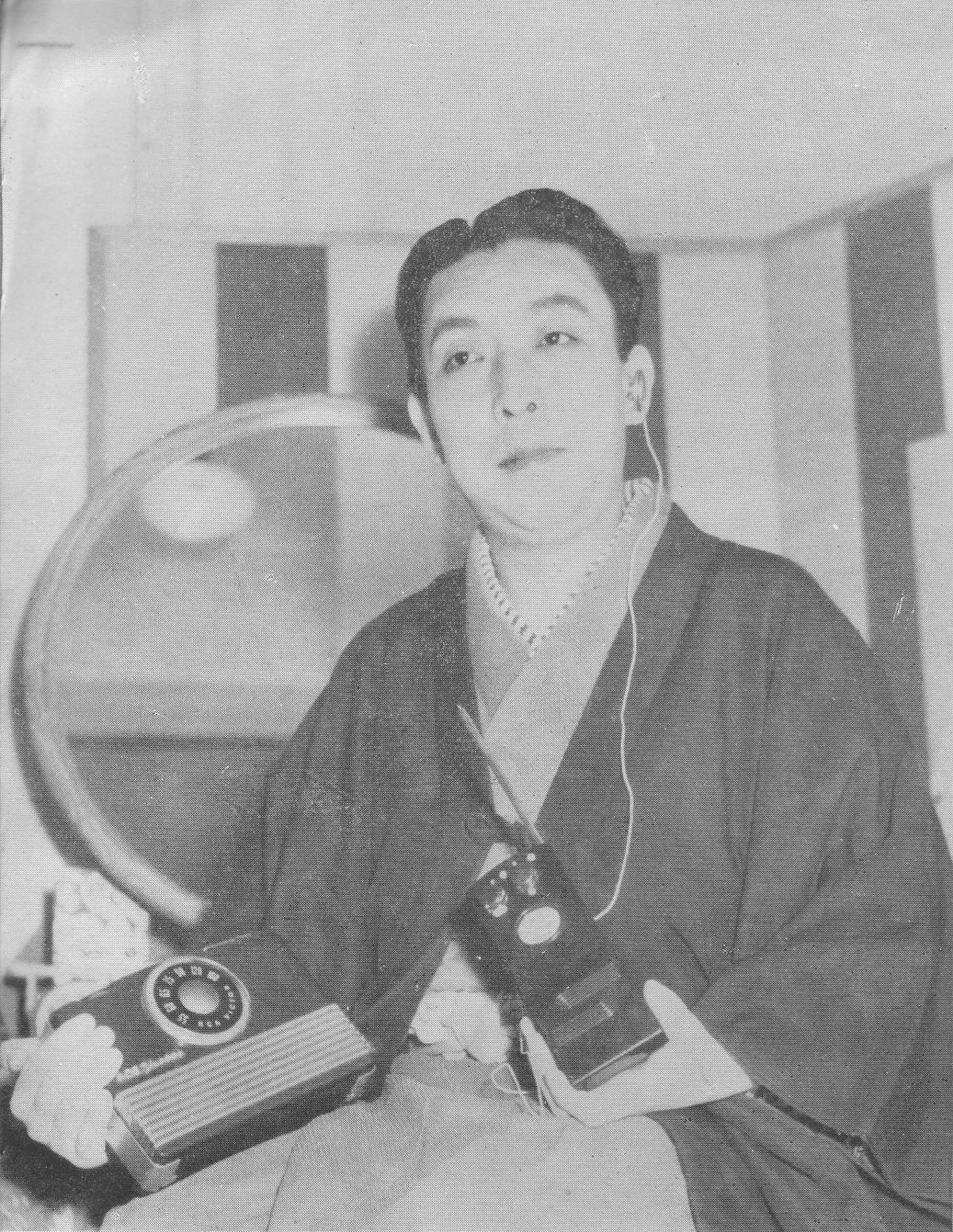 Kanzaburō Nakamura XVII. taken in 1951.